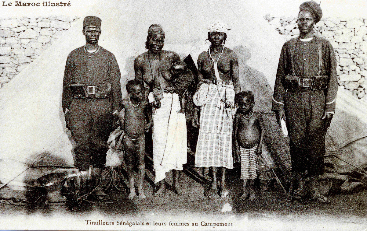 Senegalese fighters with their wives at the camp